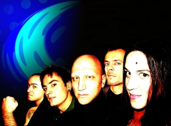 official echo tattoo pic